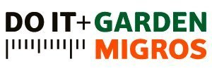 This is the logo of do it +GARDEN MIGROS